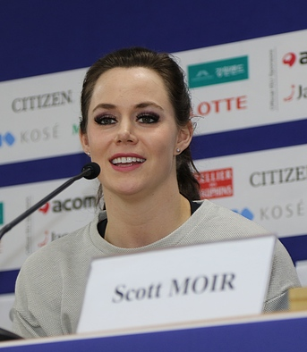 Tessa Virtue during the press conference at the 2017 Four Continents Championships